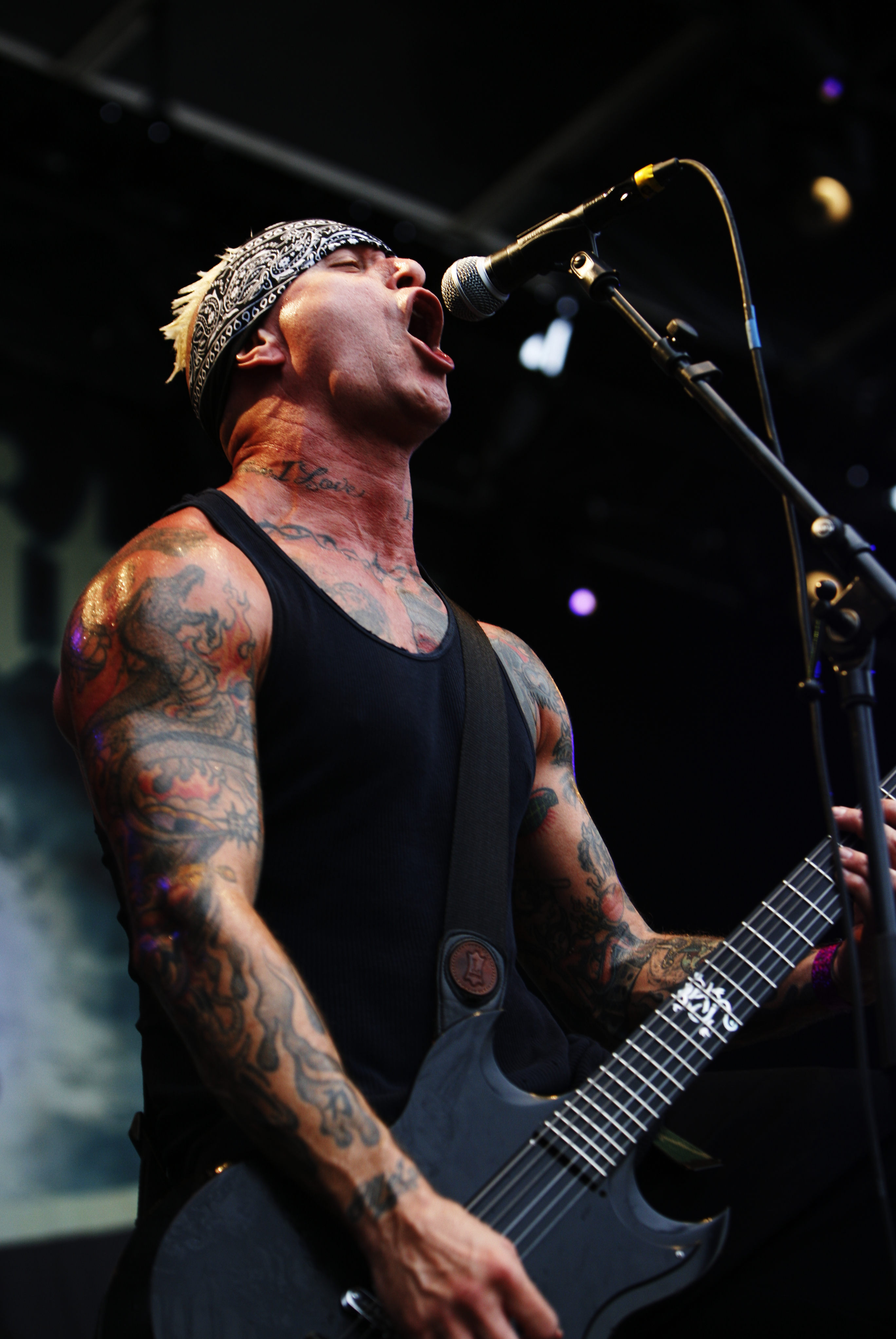 Sick of It All at the Eurockéennes of 2007